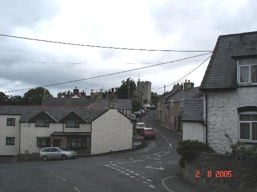 Henllan village. View across Church Road towards the church in Henllan